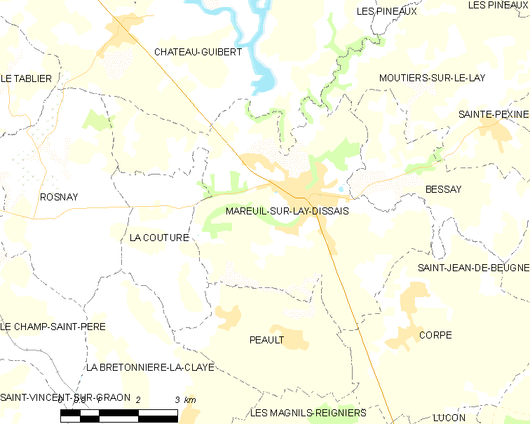 Map of French municipality Mareuil-sur-Lay-Dissais